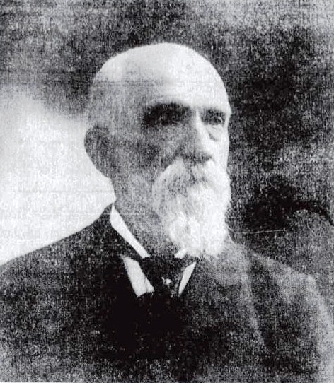 Henry Heath (Mormon pioneer) obituary photo